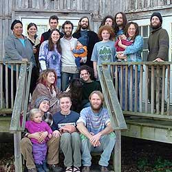 Taken at acorn community in 2005 by myself